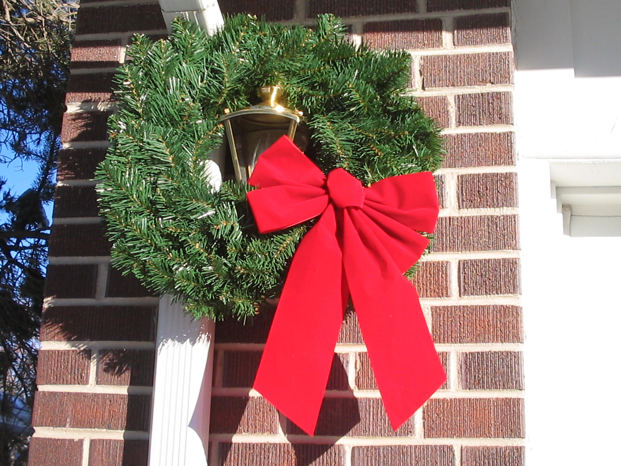 Wreathy